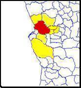 Municipality of Dande